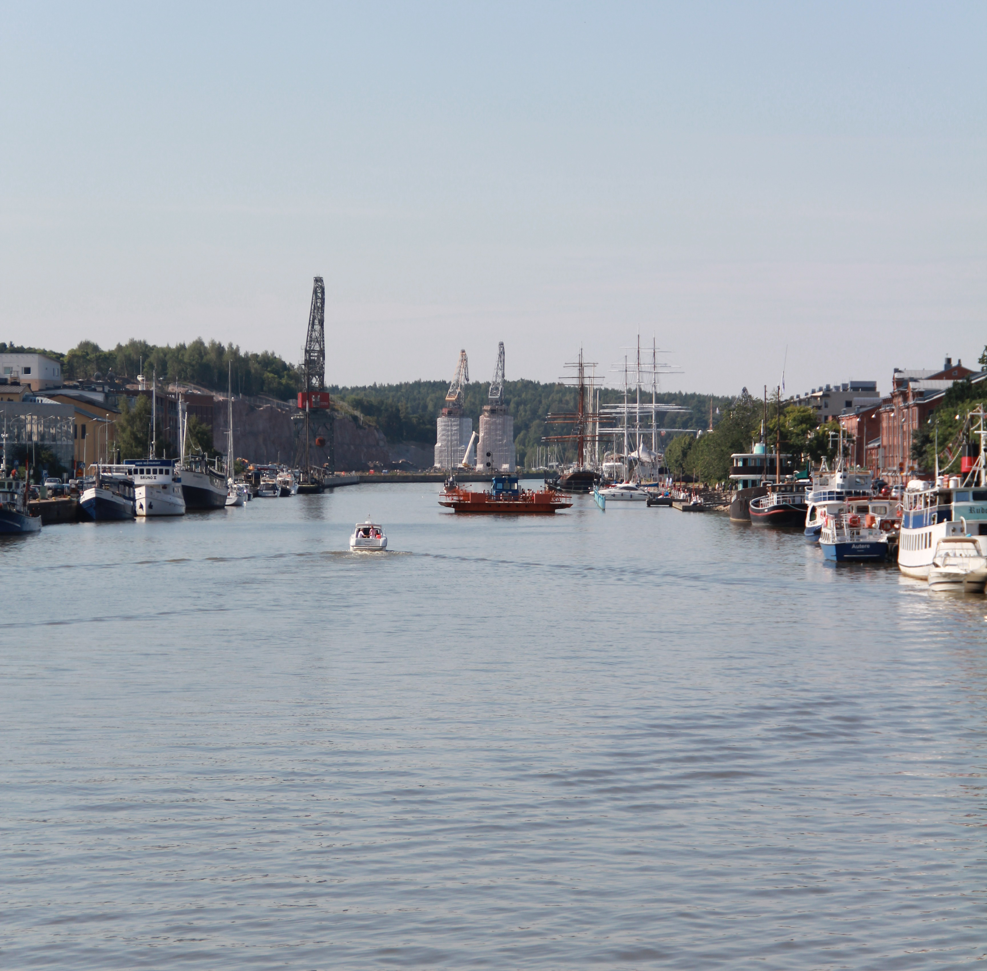 The Ferry Föri seen from Martinsilta-bridge, Turku, Finland